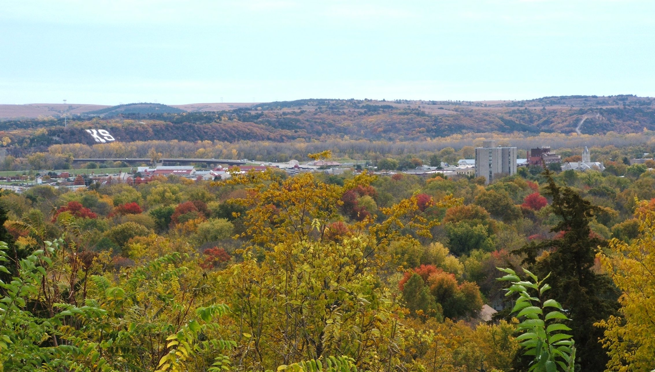 Picture of Downtown Manhattan, Kansas, USA and K-Hill. Taken in October, 2005 modified with the GIMP.